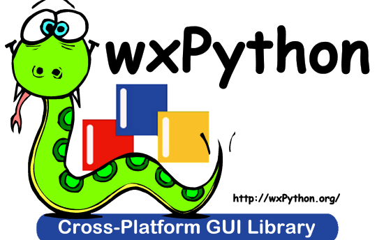 The official wxPython logo